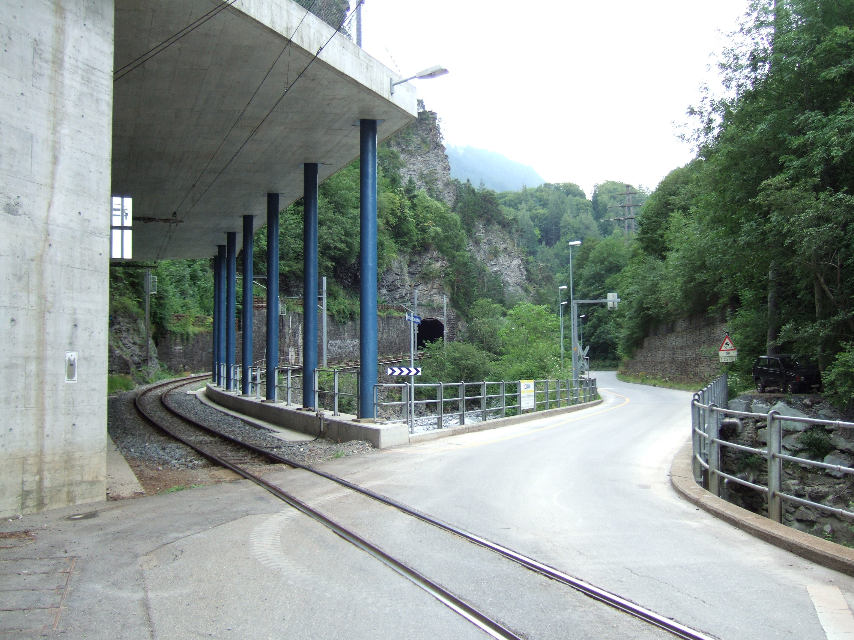 The lower entrance to the first of the Sassal tunnels